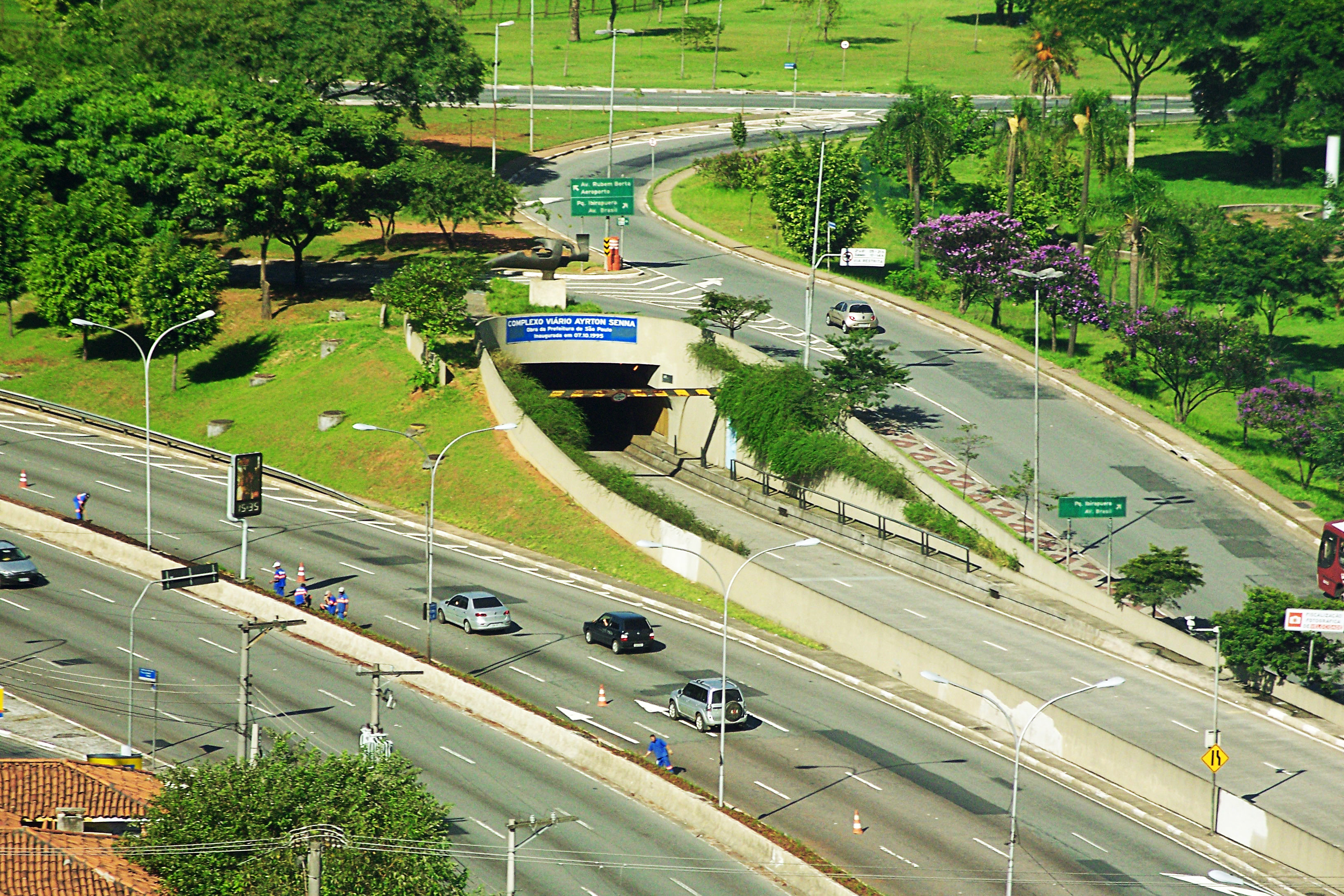 Ayrton Senna Tunnel, in São Paulo, Brazil.